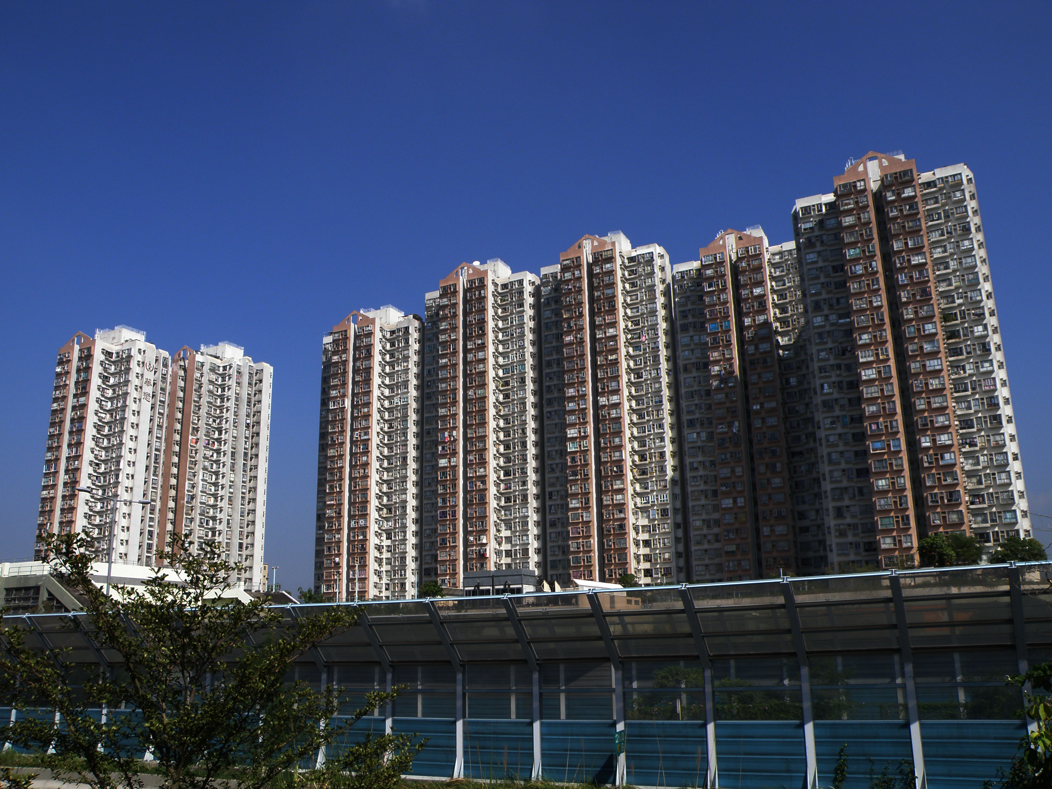 Fanling Town Center in North District, Hong Kong.